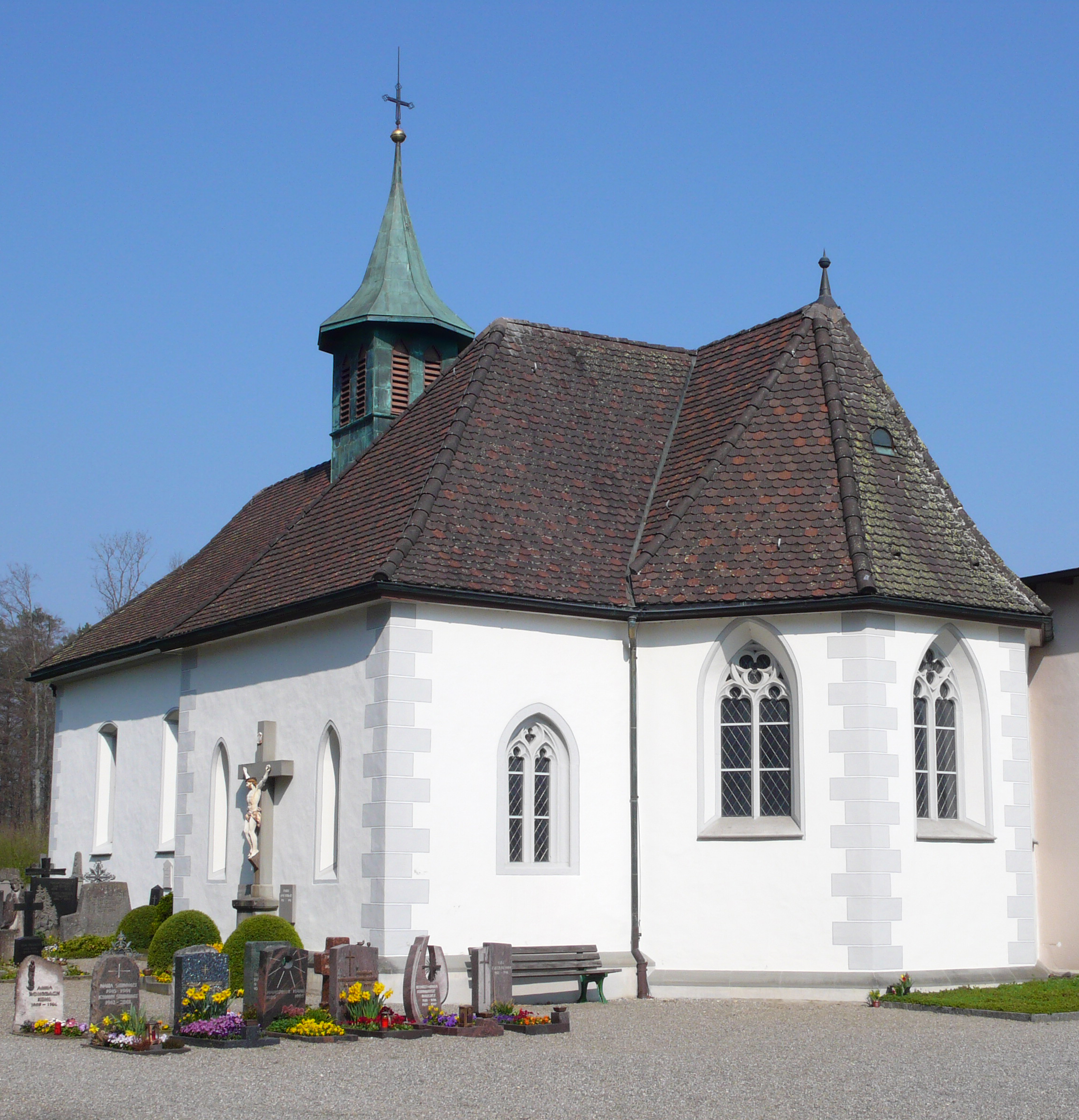 Chapel Bernrain in Kreuzlingen